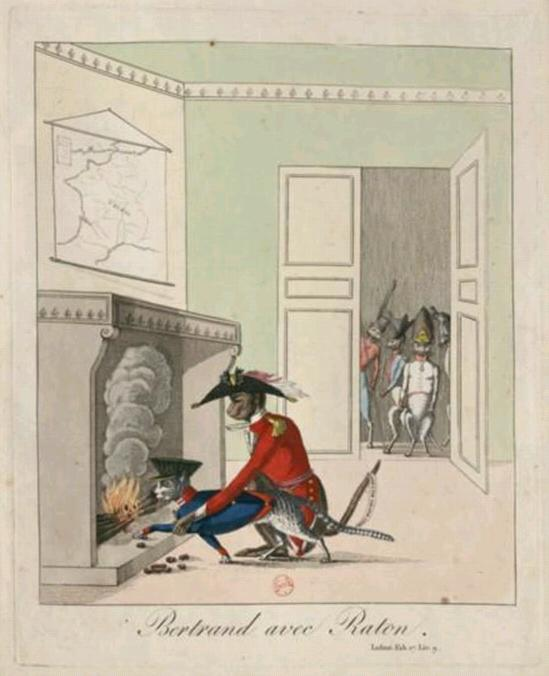 a cartoon based on the fable of the monkey and the cat